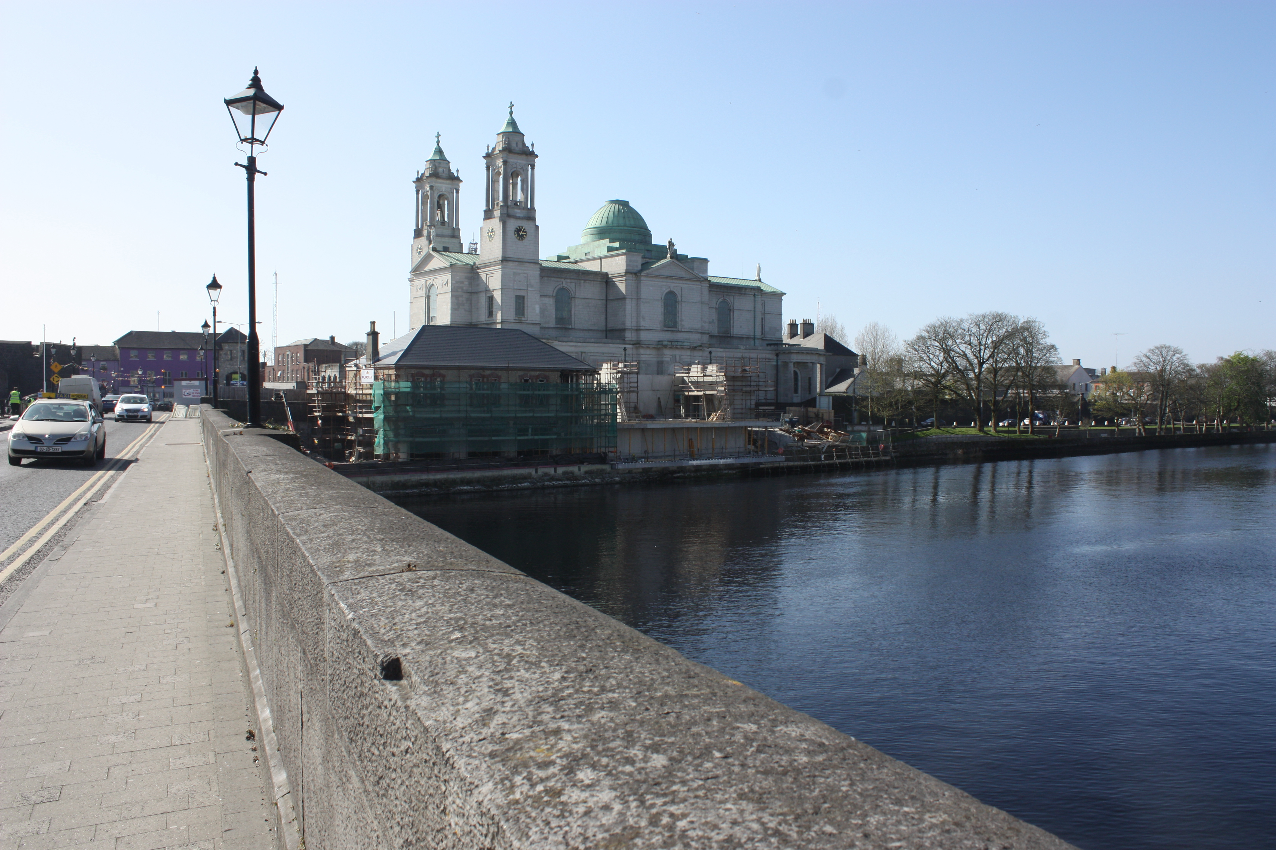 Church of Saints Peter and Paul, Athlone, County Westmeath, Republic of Ireland (viewed from Athlone Town Bridge)